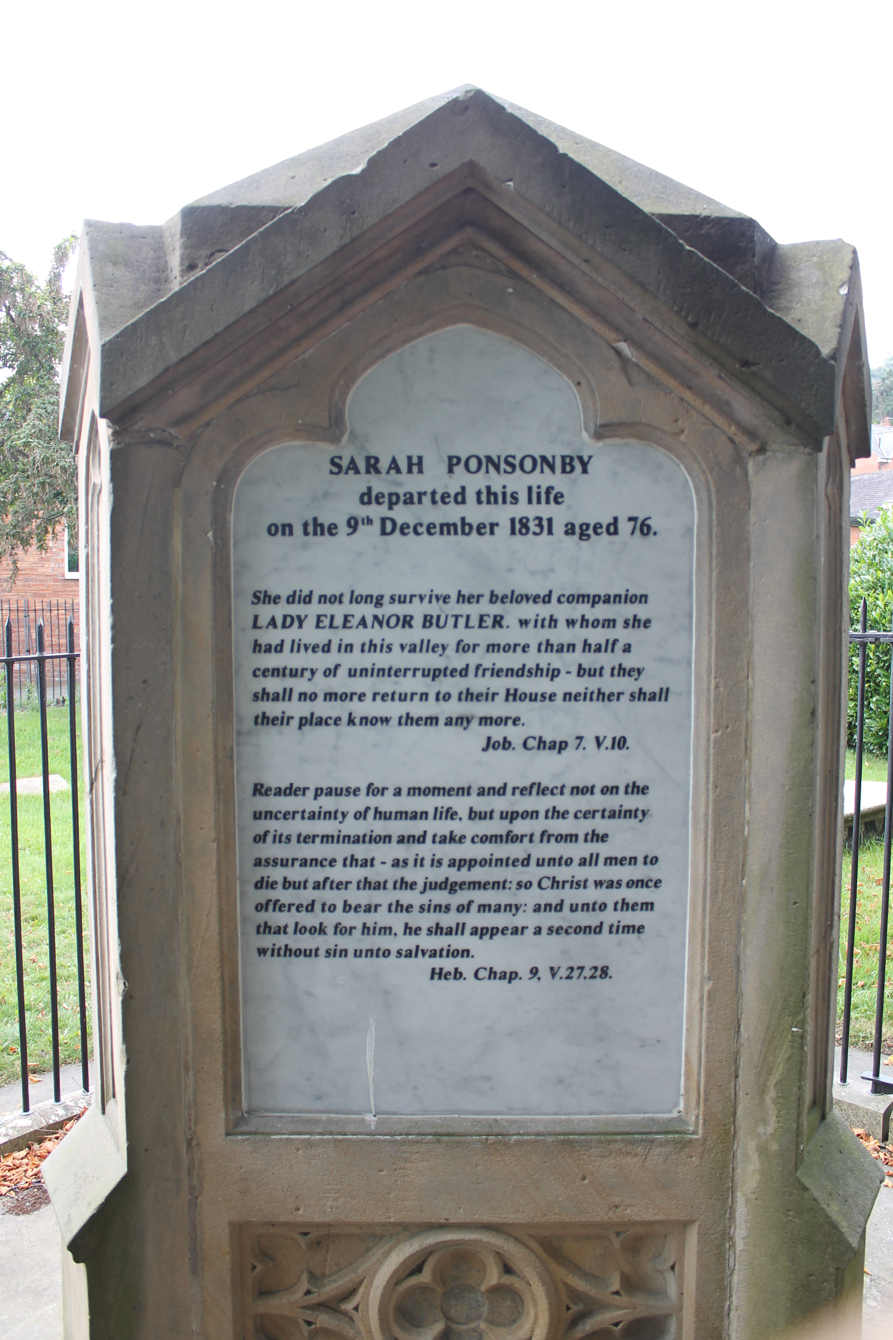 St. Collen's Parish Church, Llangollen, Denbighshire